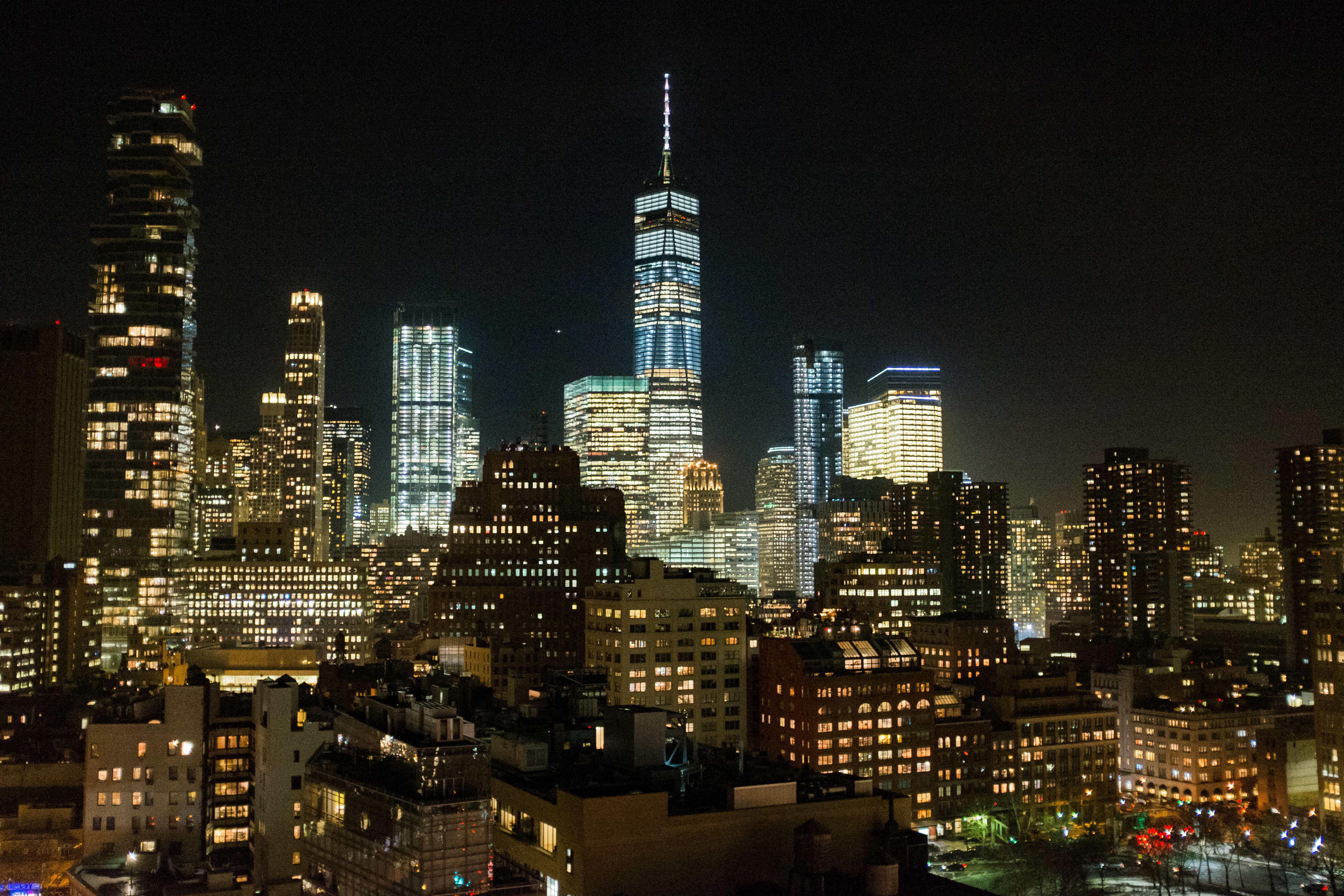 I once lived near the tall thing, now I live a a little further away in the thicket.